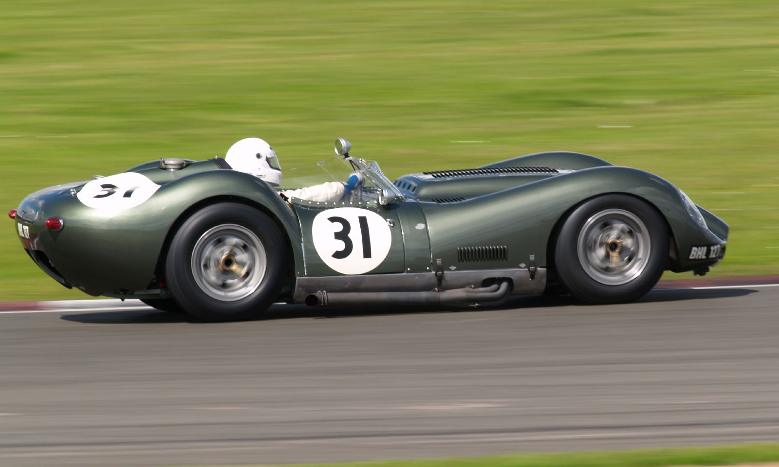 A Lister-Chevrolet at the Silverstone Classic